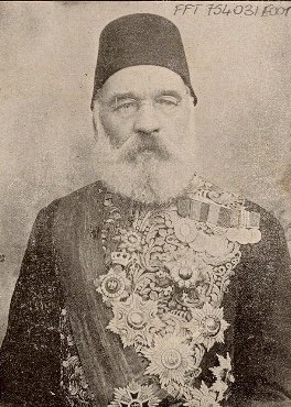 Halil Rifat Pasha (1827-1901) Ottoman Grand Vizier